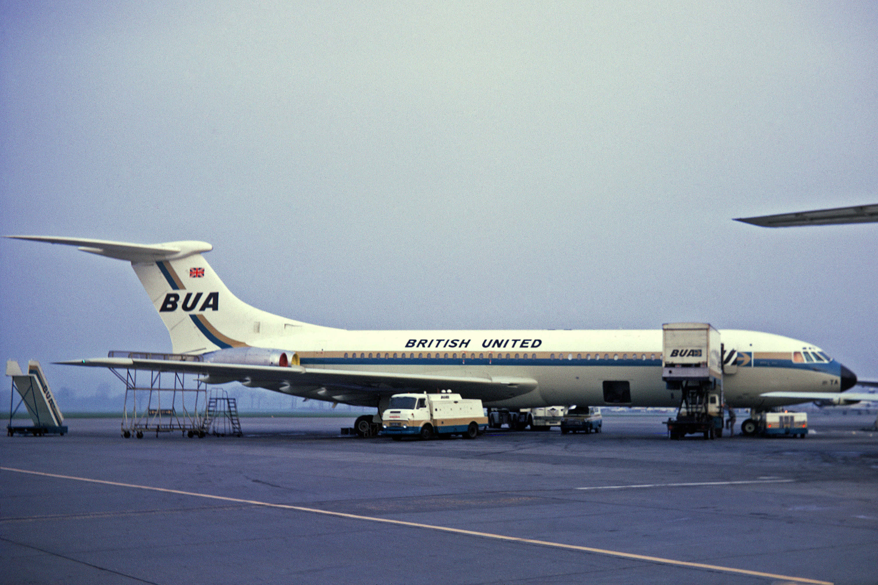 G-ARTA Vickers VC-10-1109 (prototype) BUA British United Airways LGW 05MAY69